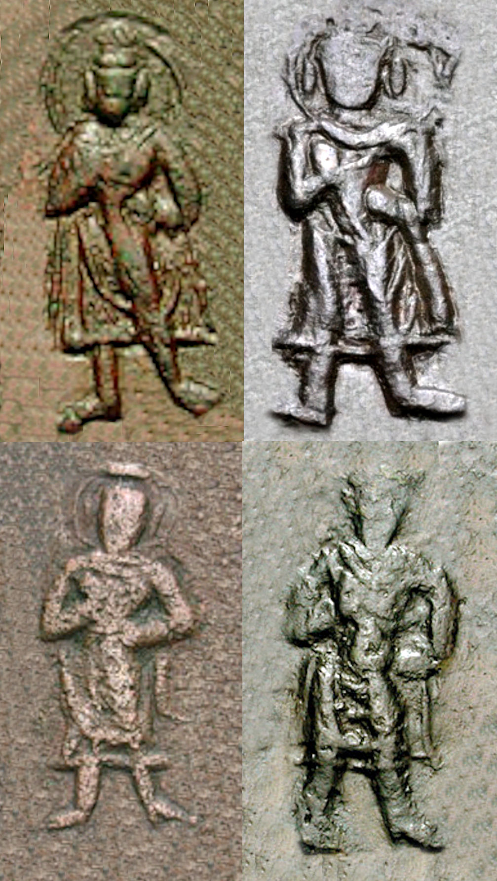 Shakyamuni Buddha on coins of Kanihska I